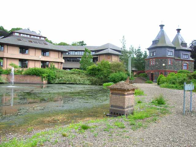 Powys County Hall, Llandrindod Wells. The striking modern offices of Powys County Council have been built on the site of the old Pump House Hotel. The old boilerhouse of the Hotel has been retained and can be seen on the right hand side of the photograph.